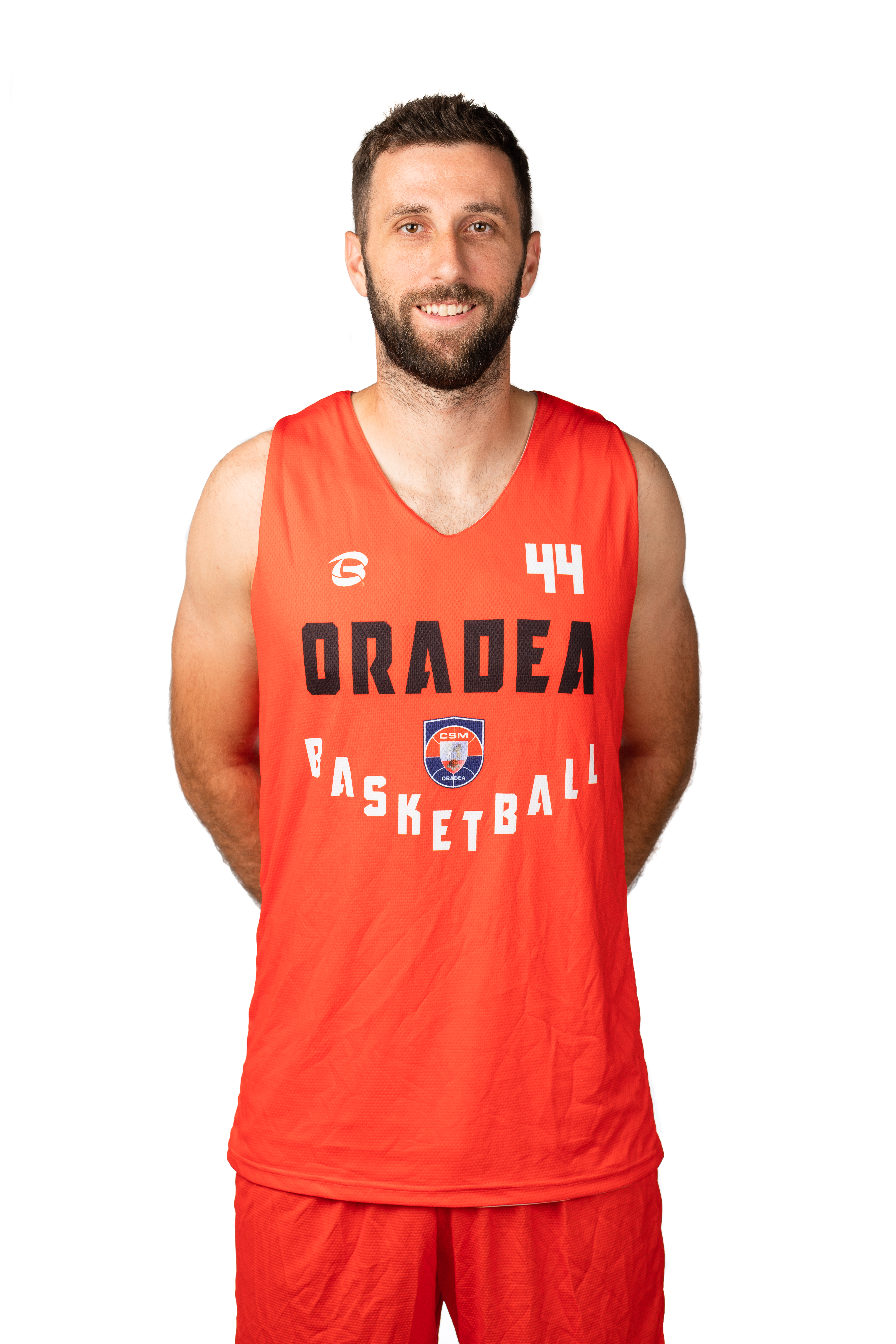 Markovic in CSM Oradea uniform 2020